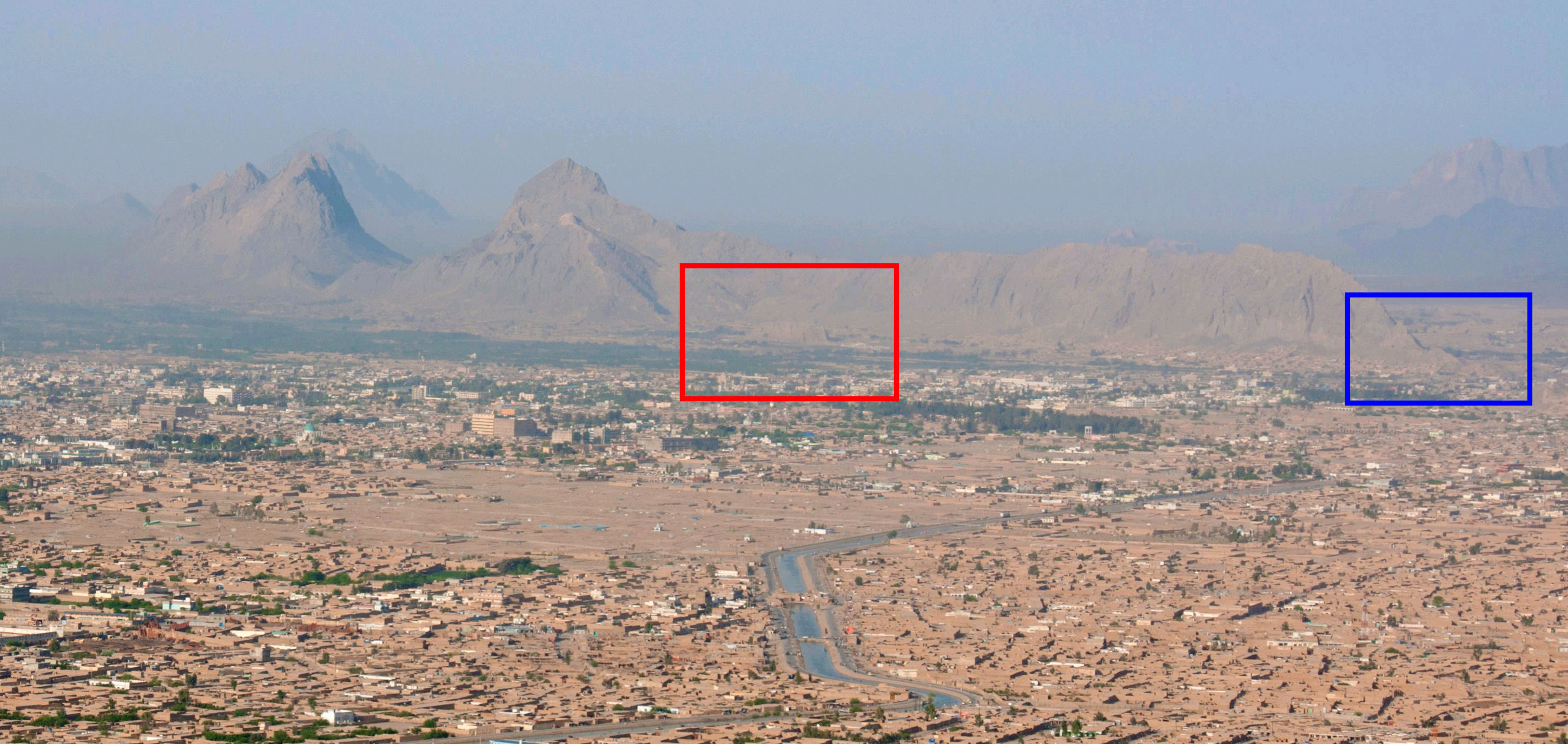 Old Kandahar city and Chil Zena outcrop on the western mountainous outskirts of Kandahar